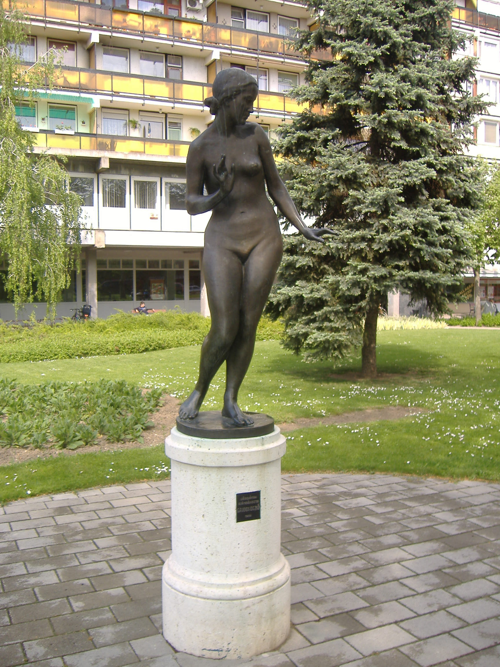 The statue of the "Jumped woman" ("Megriadt nő" in Hungarian) in Makó, Hungary. The statue is usually called the Venus of Makó. Its author is Gyula Nagy.